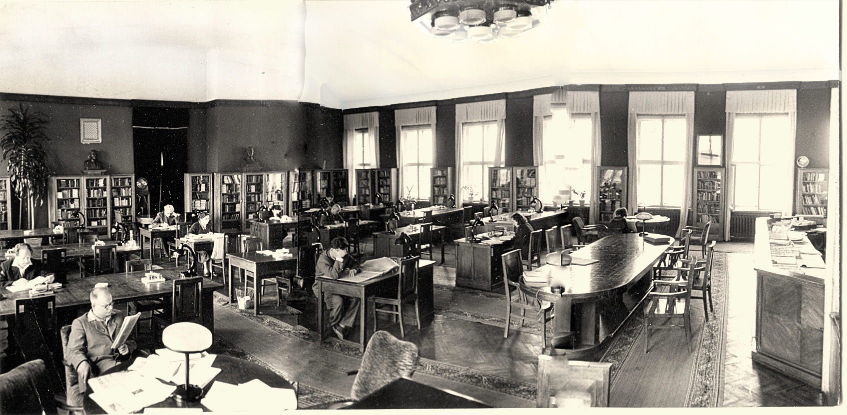 Черно-белая фотография